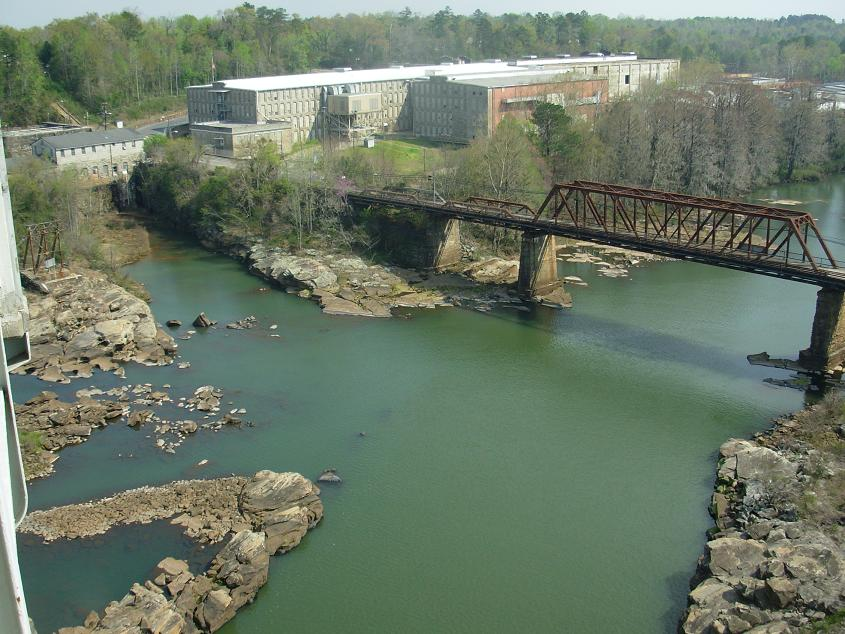 The Tallapoosa River in Tallassee, Alabama